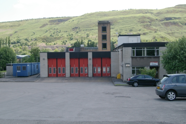 Tonypandy Fire Station Tonypandy Fire Station, Llwynypia Road, Tonypandy, South Wales